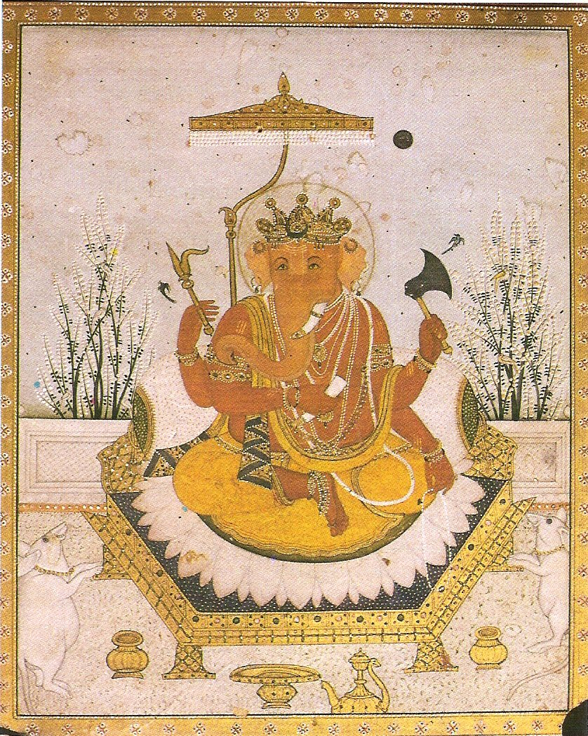 Four-armed Gaṇeśa. Miniature of Nurpur school, circa 1810. Museum of Chandigarh. Source: This work is reproduced and described in Martin-Dubost, Paul (1997). Gaņeśa: The Enchanter of the Three Worlds. Mumbai: Project for Indian Cultural Studies. ISBN 81-900184-3-4, p. 64, which describes it as follows: "On a terrace leaning against a thick white bolster, Gaṇeśa is seated on a bed of pink lotus petals arranged on a low seat to the back of which is fixed a parasol. The elephant-faced god, with his body entirely red, is dressed in a yellow dhoti and a yellow scarf fringed with blue. Two white mice decorated with a pretty golden necklace salute Gaṇeśa by joining their tiny feet together. Gaṇeśa counts on his rosary in his lower right hand; his two upper hands brandish an axe and an elephant goad; his fourth hand holds the broken left tusk." Category:Ganesh